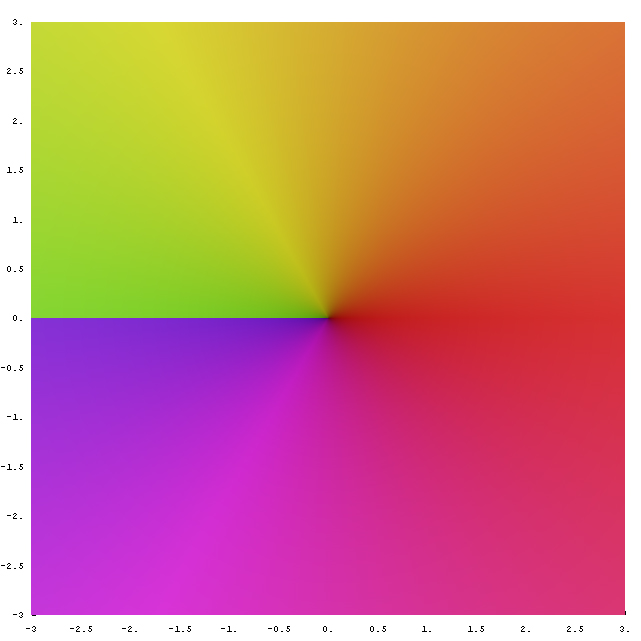 function Sqrt[z] in the complex plane